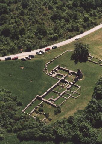 Piliszentlélek - pálos convent ruins This picture is © copyright Civertan Grafikai Stúdió (Civertan Bt.), 1997-2006.; has been verified that Commons user Civertan is controlled by Civertan Grafikai Stúdió and that it is allowed to relicense content copyrighted to this organization. This work is free and may be used by anyone for any purpose. If you wish to use this content, you do not need to request permission as long as you follow any licensing requirements mentioned on this page.